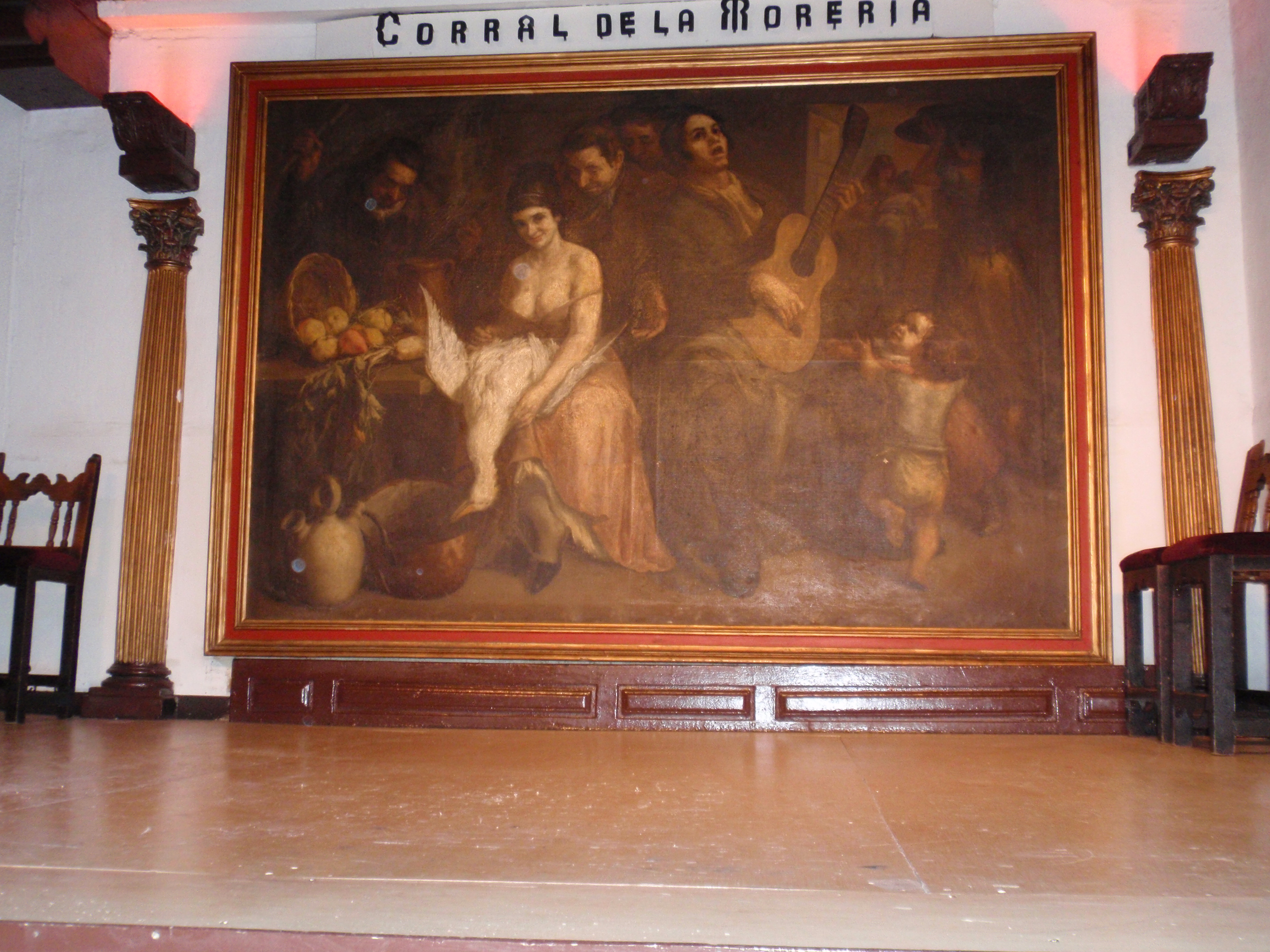 Corral de la Morería, Madrid